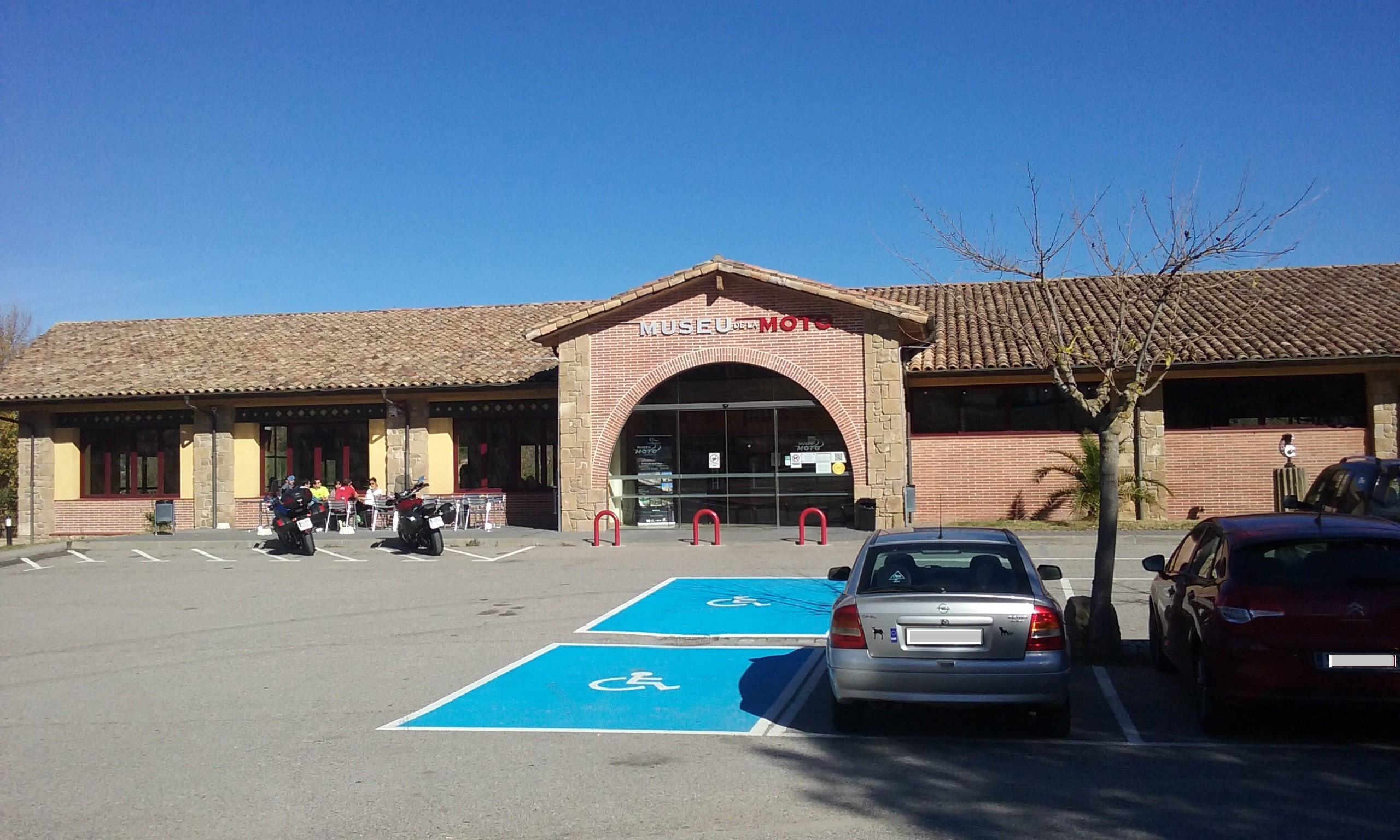 The "Museu de la Moto de Bassella"